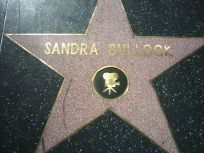 Star of Sandra Bullock on the Hollywood Walk of Fame.